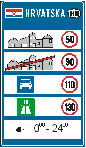 Croatian limits on roads.